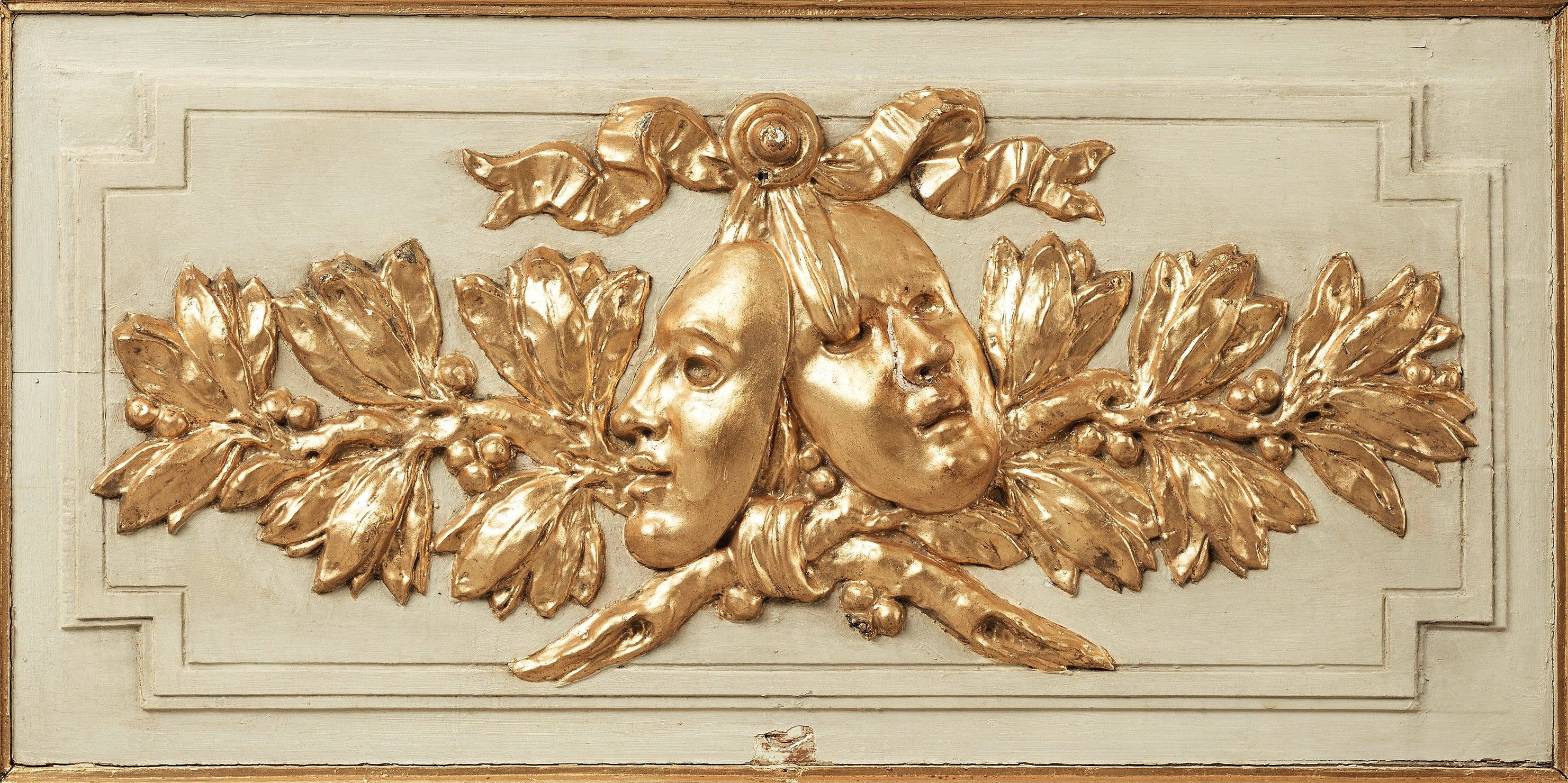 Railing from the Gustavian Opera house in Stockholm. Completed in 1786 by architect Carl Fredrik Adelcrantz.